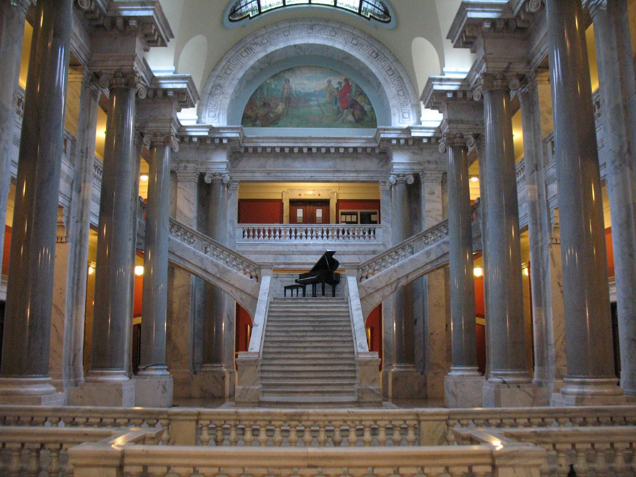 This is the interior of the capitol in Kentucky.